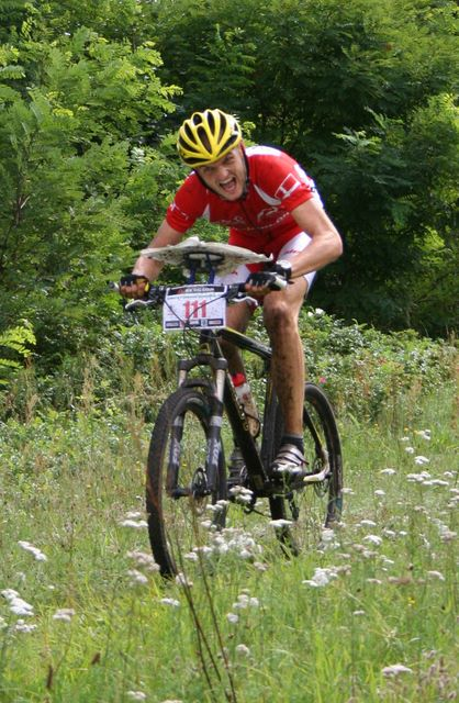 This work is free and may be used by anyone for any purpose. If you wish to use this content, you do not need to request permission as long as you follow any licensing requirements mentioned on this page.